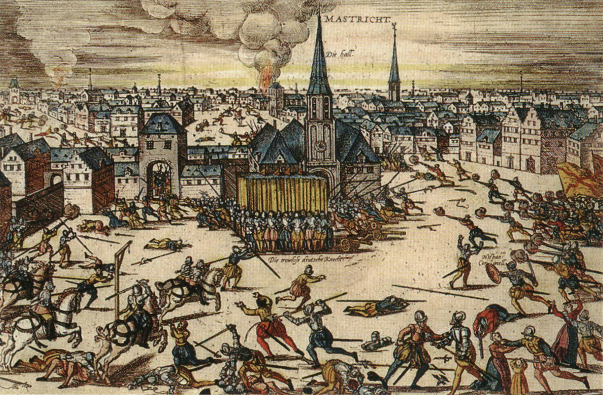 View of the so-called Spanish Fury in Maastricht in 1576 during the Eighty Years' War. Here: Spanish troops fighting civilians on the town's market square.